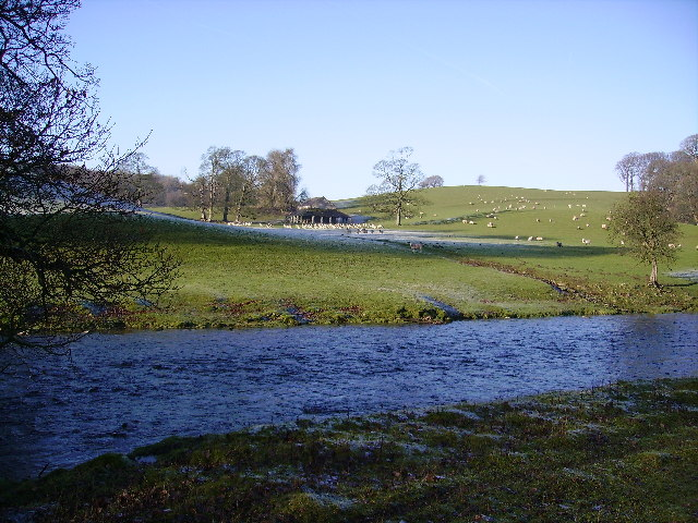 River Bela. Between Beetham and Milnthorpe. Fallow deer in the Deer park beyond.